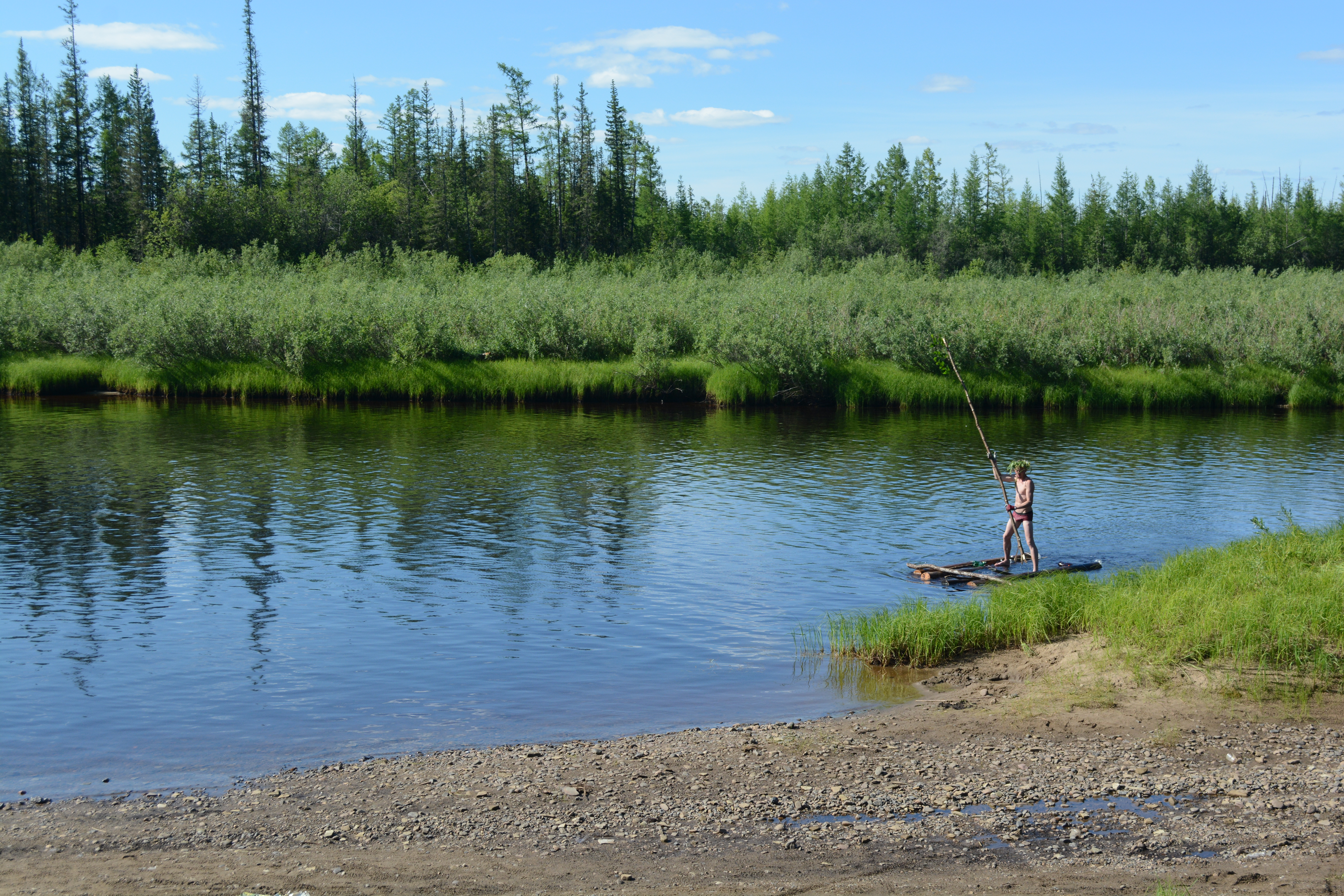 Ochchuhuy-Botuobuya River, Sakha (Yakutia) Republic, Russia